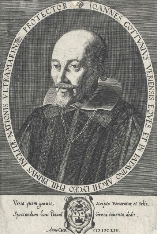 Engraved portrait of Ioannis Kottounios (Greek: Ἰωάννης Κωττούνιος) (c. 1577 - 1658)(Latin: Joannes Cottunius di Verria) was an eminent Greek Macedonian scholar who studied Philosophy, Theology and Medicine, taught Greek from 1617 and Philosophy from 1630 in Bologna, Italy becoming professor of philosophy in 1632 he also founded a college for unwealthy Greeks at Padua in 1653.